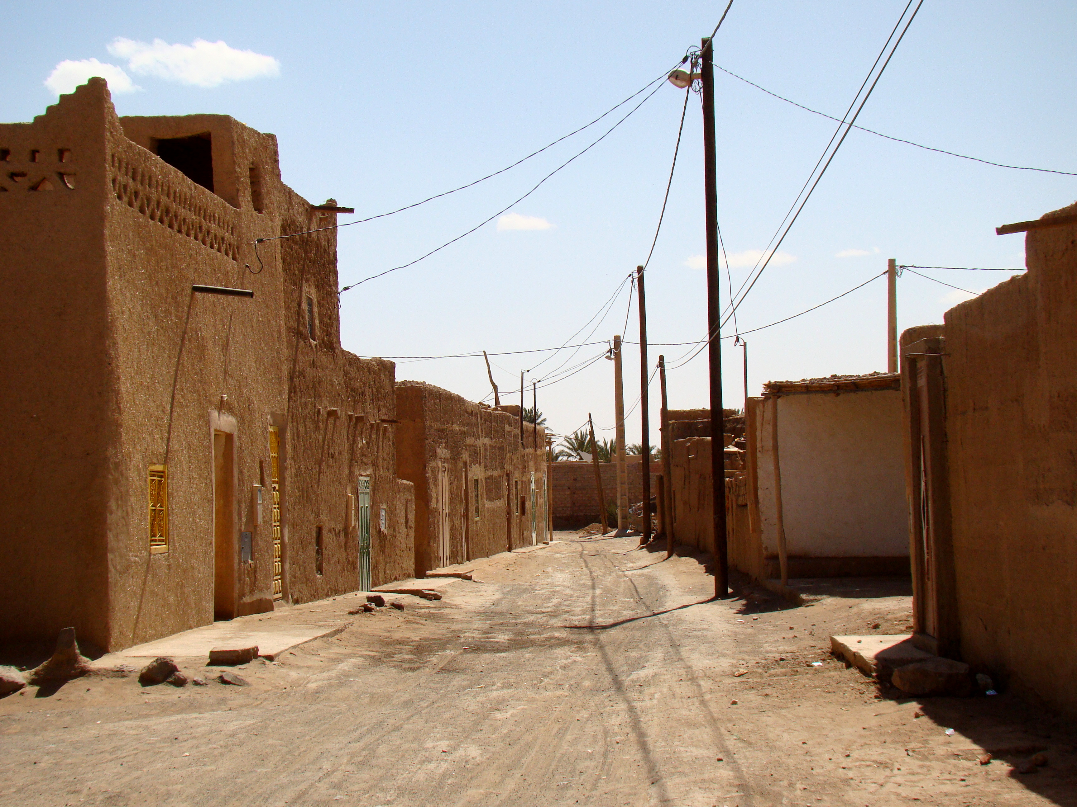 A street in Merzoua, Morocco, in April 2011. This is a fairly typical example of the architecture in the older part of the town.